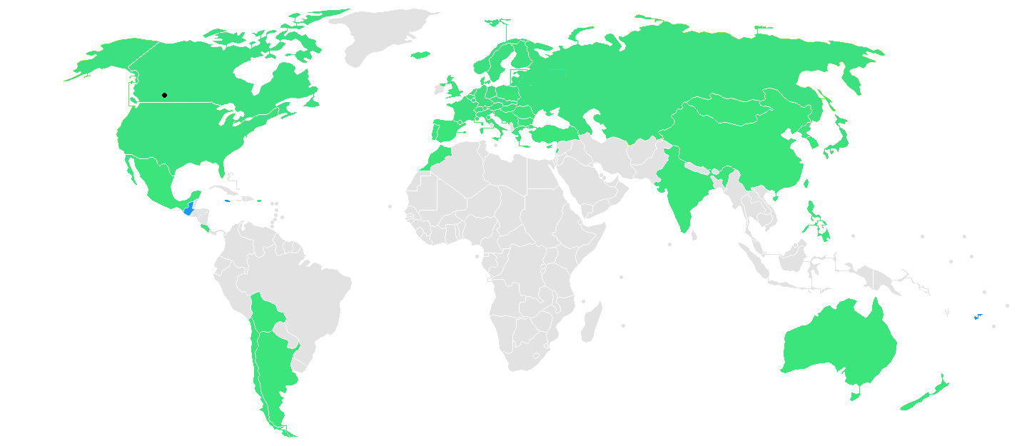 Countries which participated in the 1988 Winter Olympics, derived from this map. Blue = Participating for the first time Green = Have previously participated. Black circle is host city (Calgary).